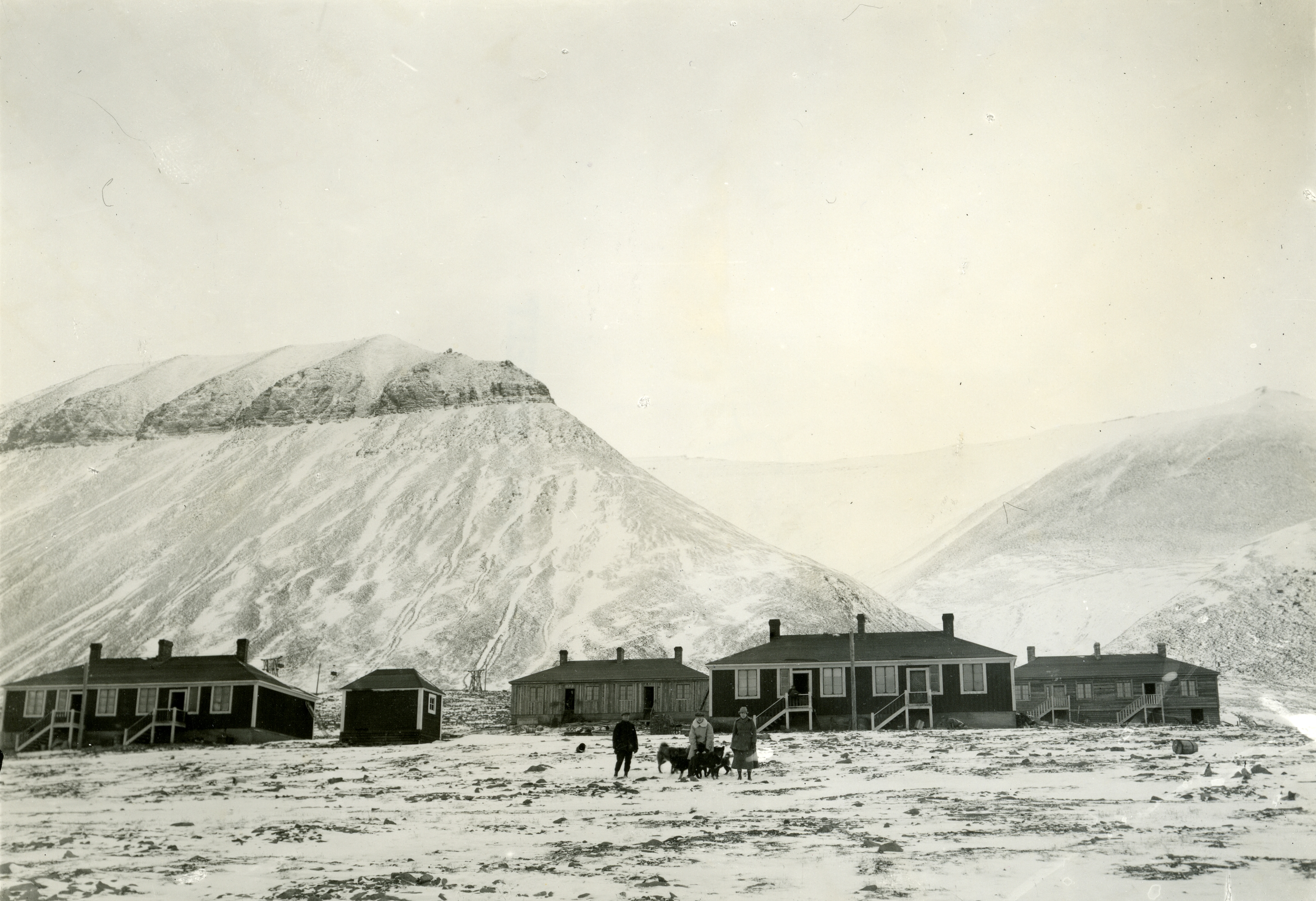 Worker's houses av the Svea mine.